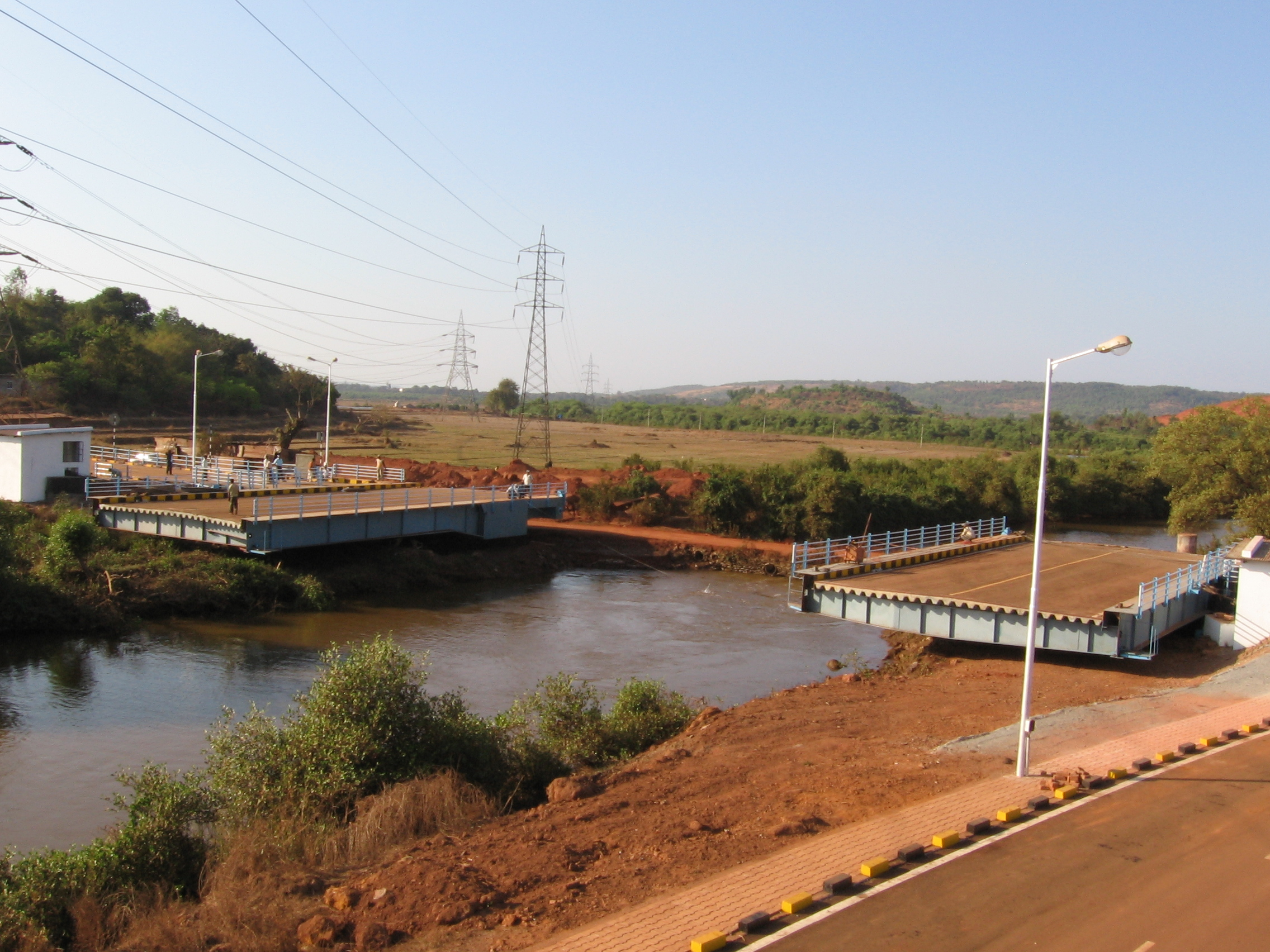 The Poira-Corjuem Bridge, India's first horizontal opening, balance cantilever bridge at Poira, Goa.